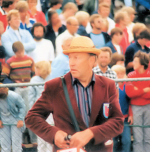 Norwegian politician Arne Haukvik. Knarvik, Norway